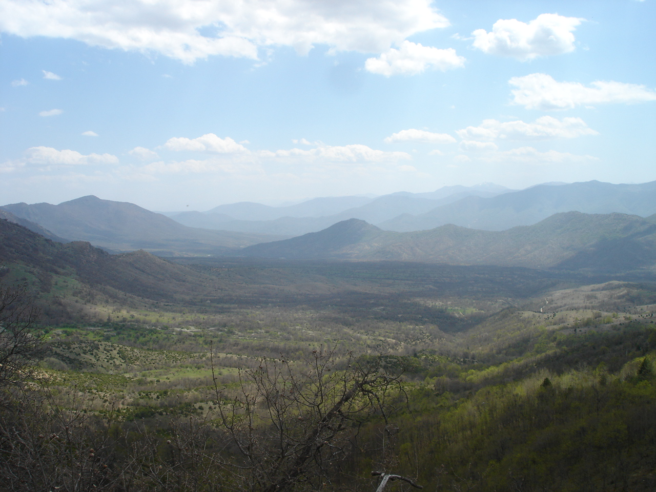 Azot region in Macedonia